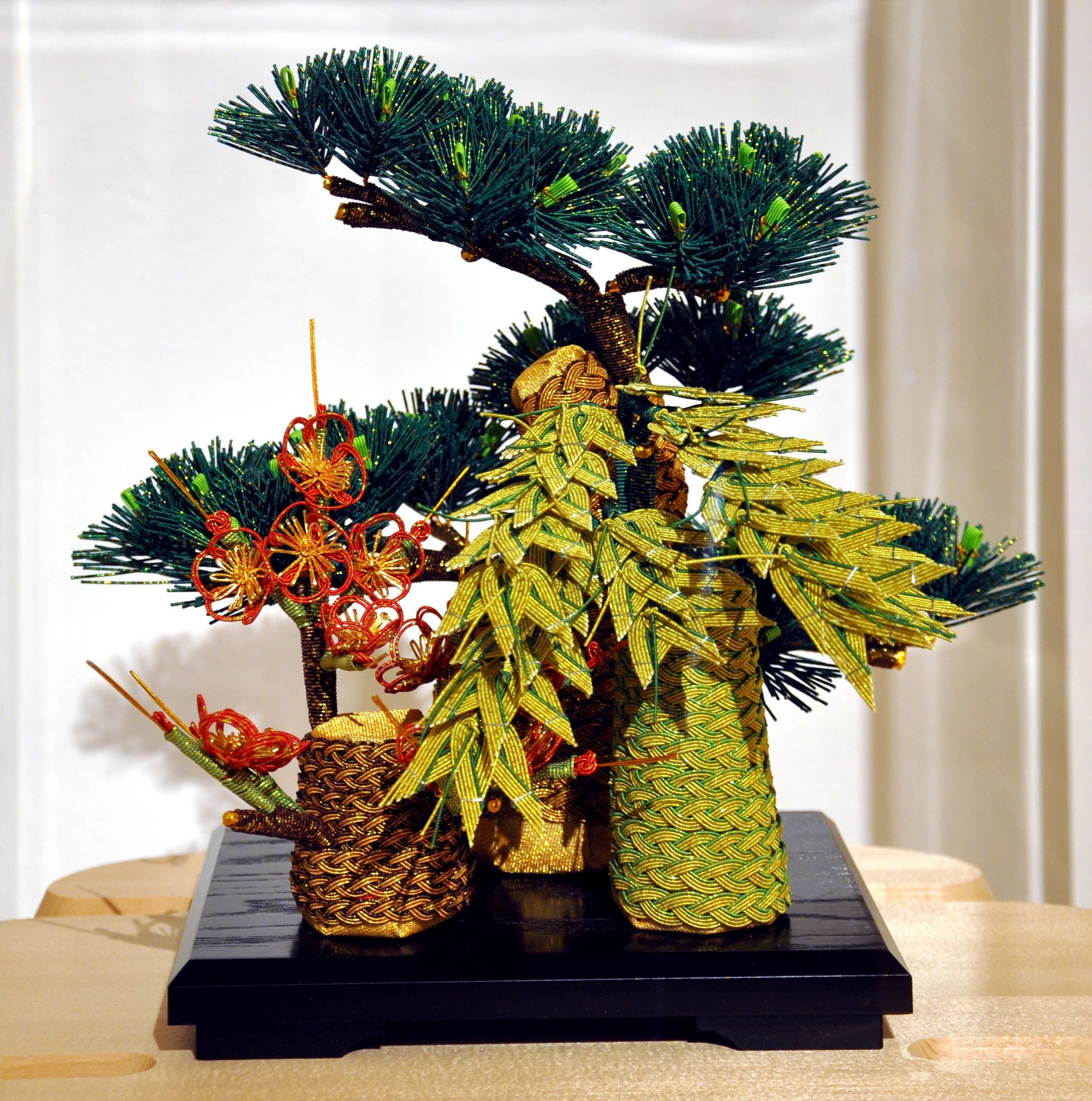 Engagement present: Bonsai from Mizuhiki chords, Exhibition Waza - Traditional Crafts from Kyôto at Museum für Angewandte Kunst, Frankfurt am Main, Germany, 2011.